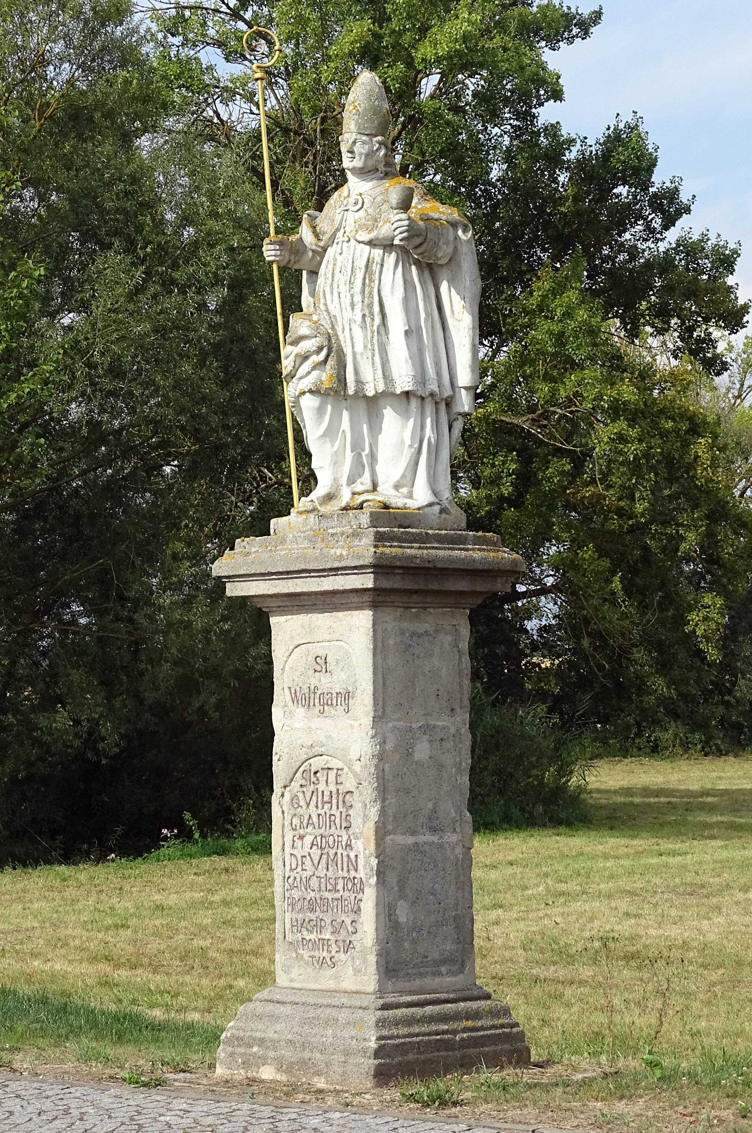 Statue of St. Wolfgang on the Nikolai bridge at Grasmannsdorf, Markt Burgebrach